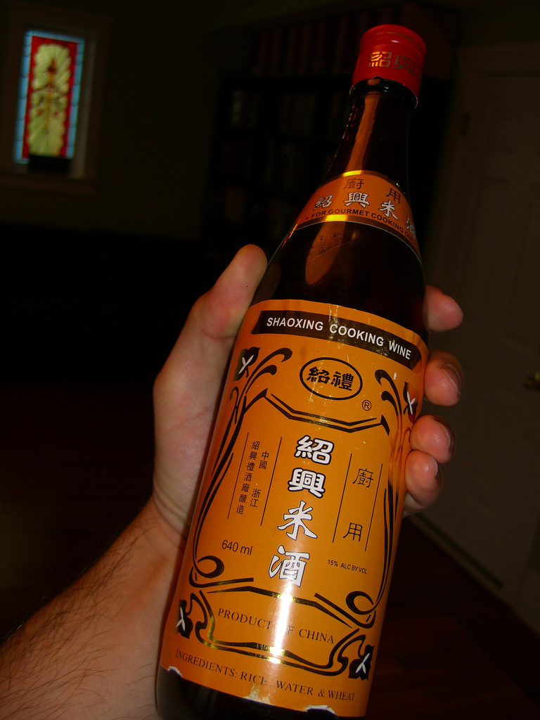 Shaoxing rice wine (紹興米酒) - you'll need about half a cup. Dry sherry can be substituted.Aromatic Chinese Ox Tails